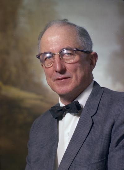 Representative Eric O. Anderson, 1967